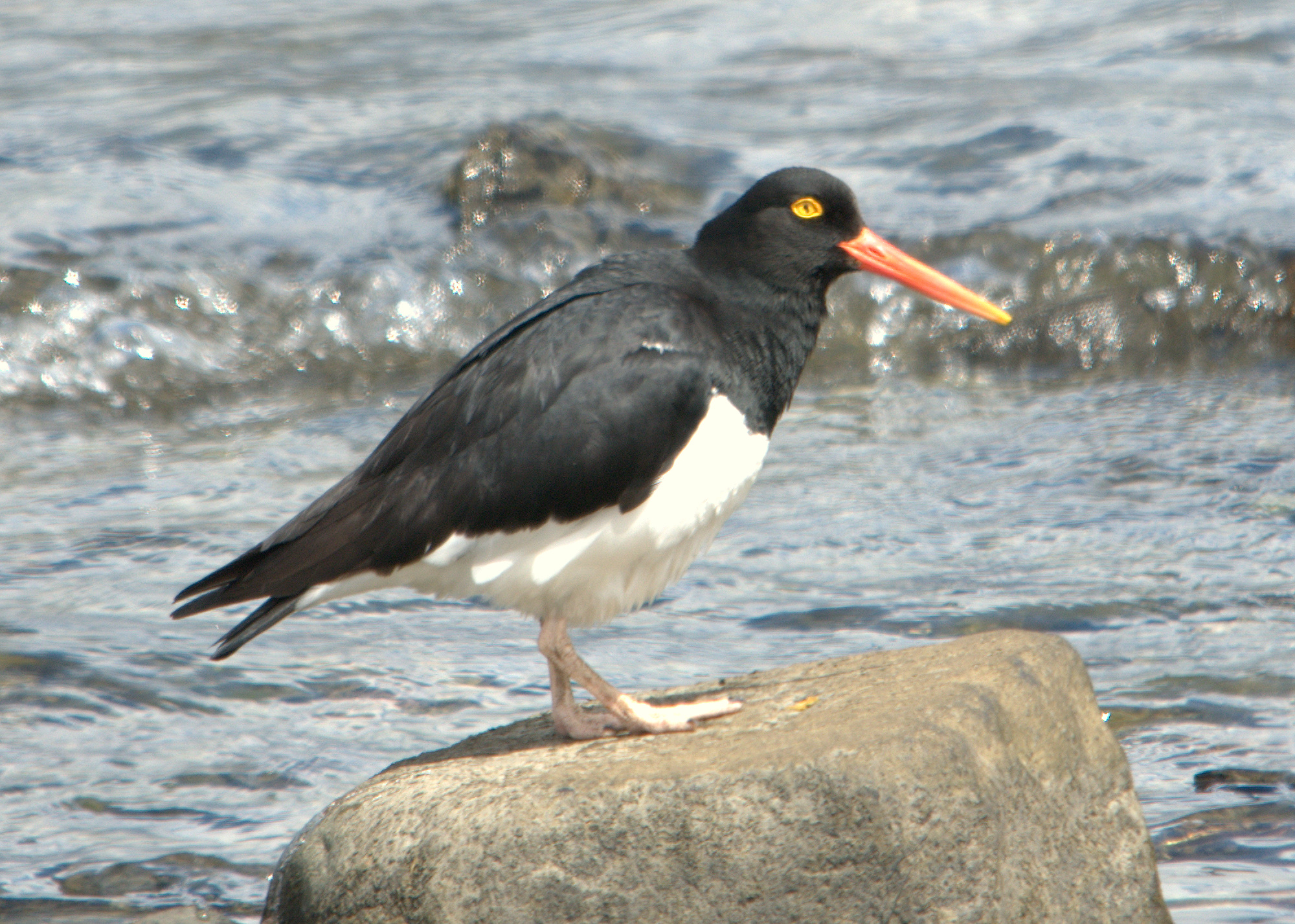 Haematopus leucopodus Magellanic Oystercatcher at Puerto Natales